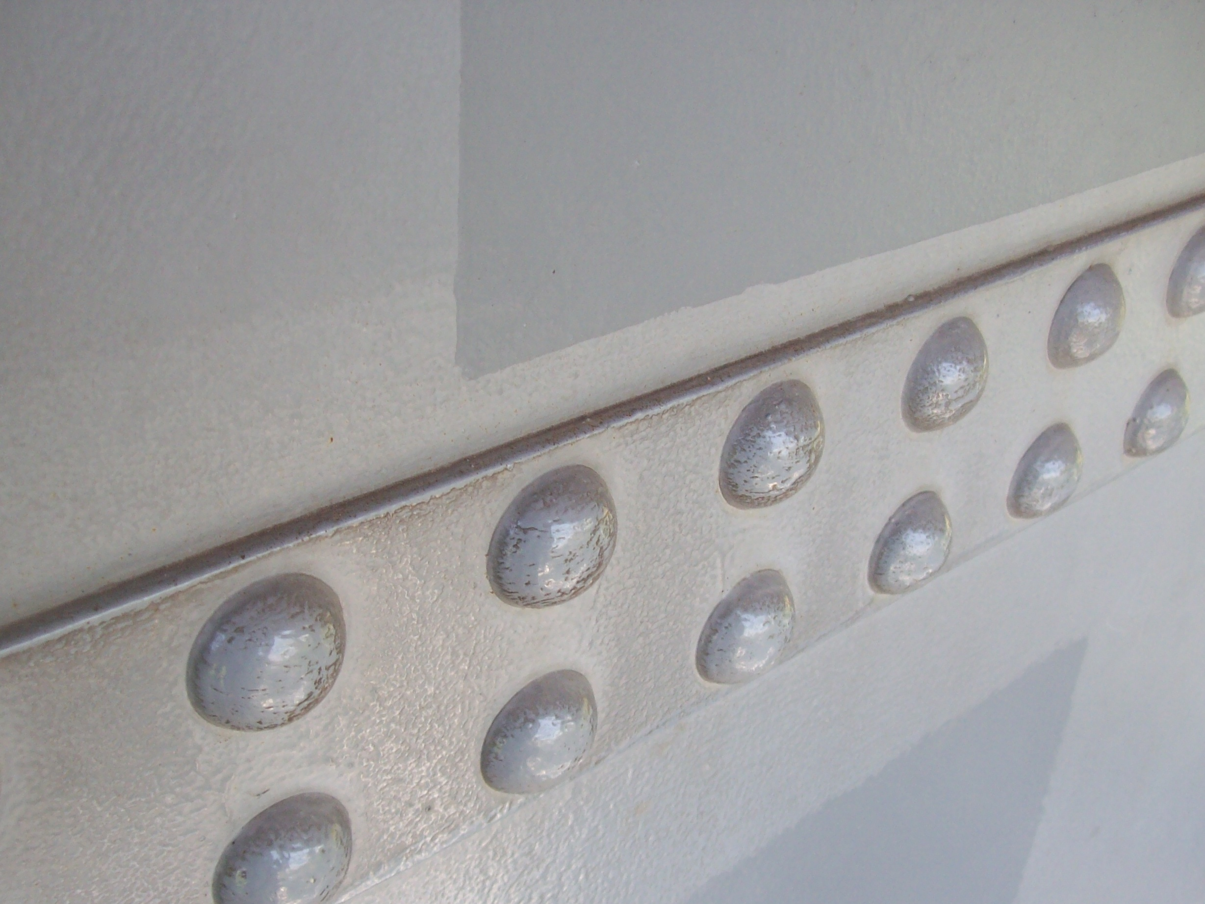 Rivets - Petřín Lookout Tower